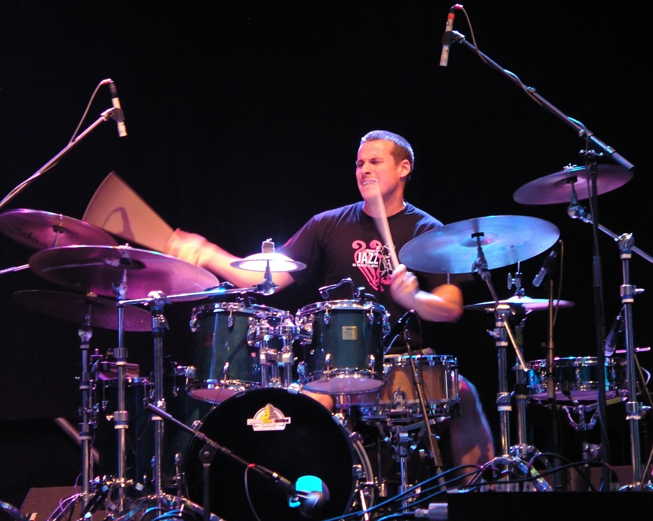 Martin Valihora on drum, Hiromi Uehara in Mendriso, 2007-06-30